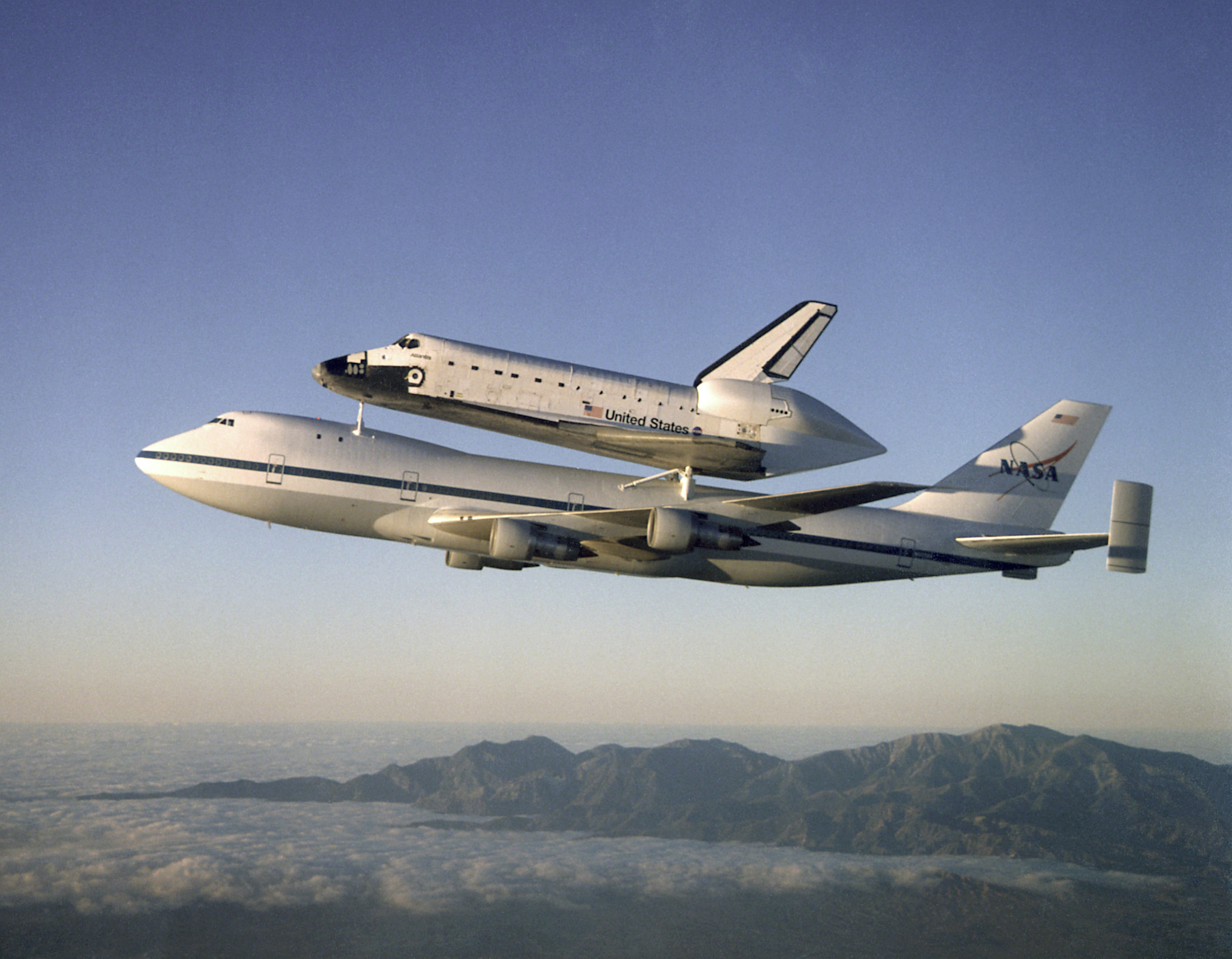 The Space Shuttle orbiter Atlantis, framed by the California mountains, as it rides on the back of one of NASA's Boeing 747 Shuttle Carrier Aircraft (SCA) en route from California to the Kennedy Space Center, Florida, after a ten month refurbishment.